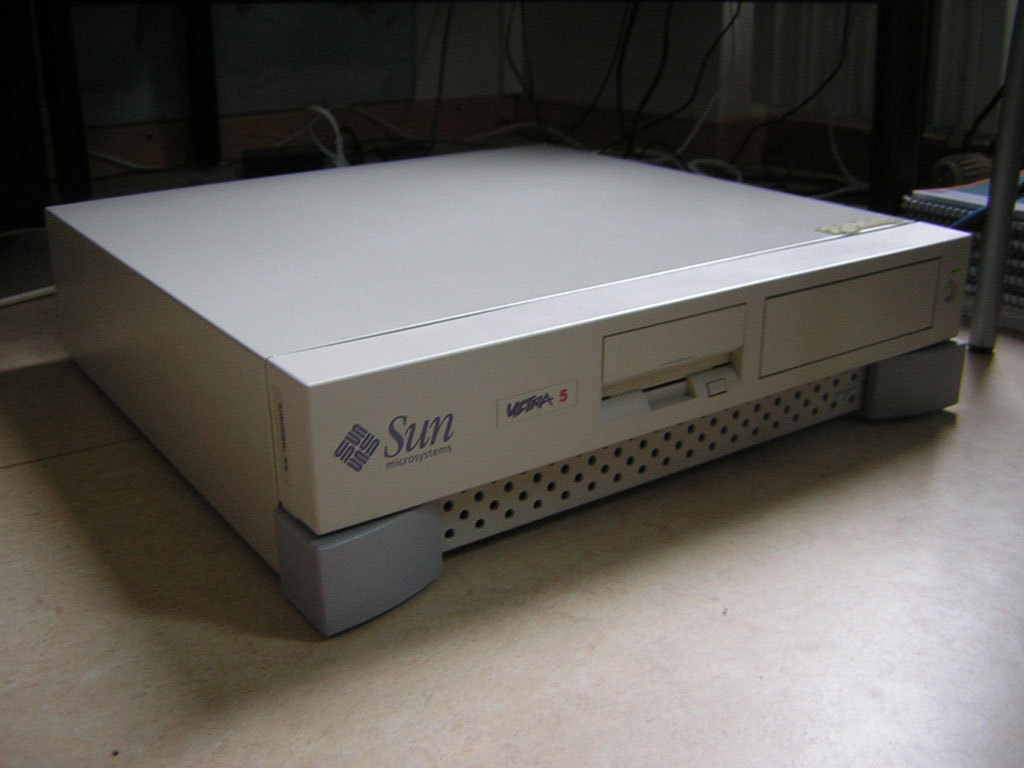 A Sun Ultra 5 workstation